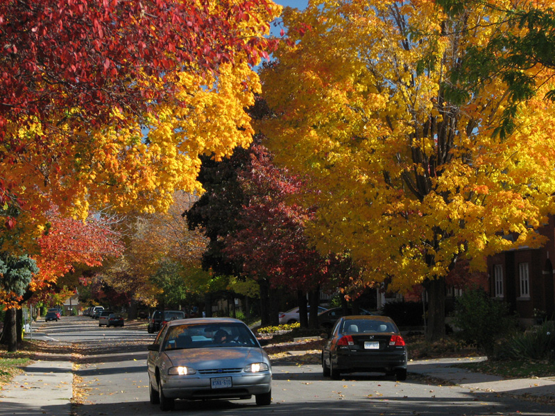 My own pictures